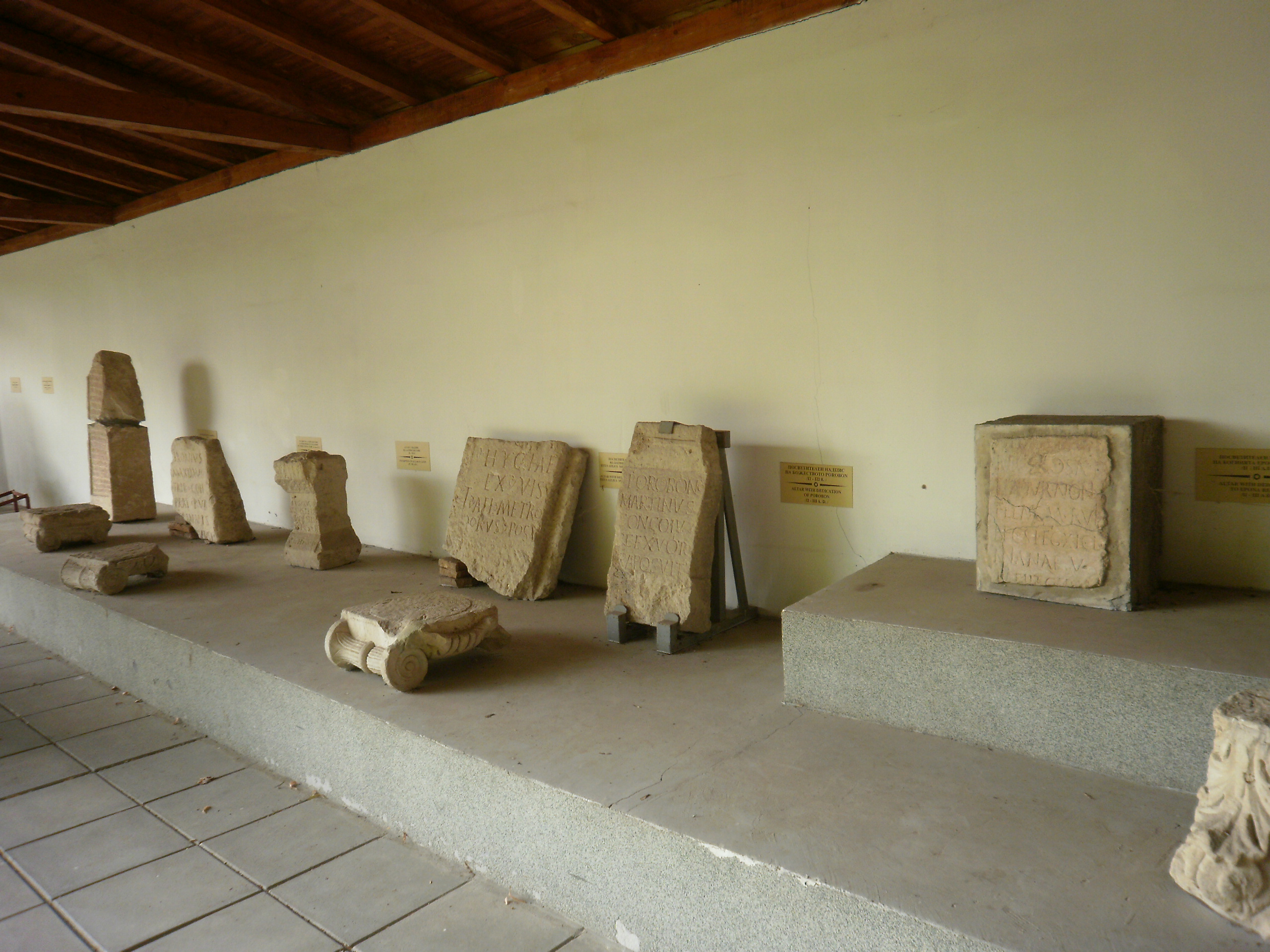 Abrittus, Bulgaria.